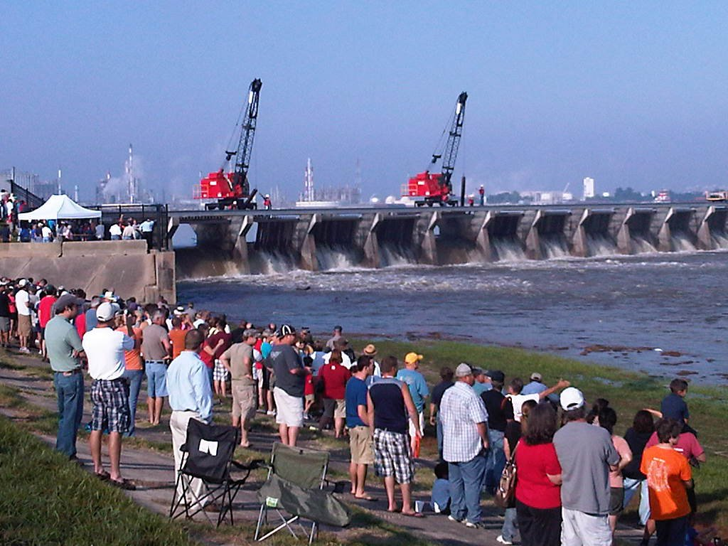 LOUISIANA — The U.S. Army Corps of Engineers operates the Bonnet Carre Spillaway here, May 9, 2011. (U.S. Army Corps of Engineers photo)